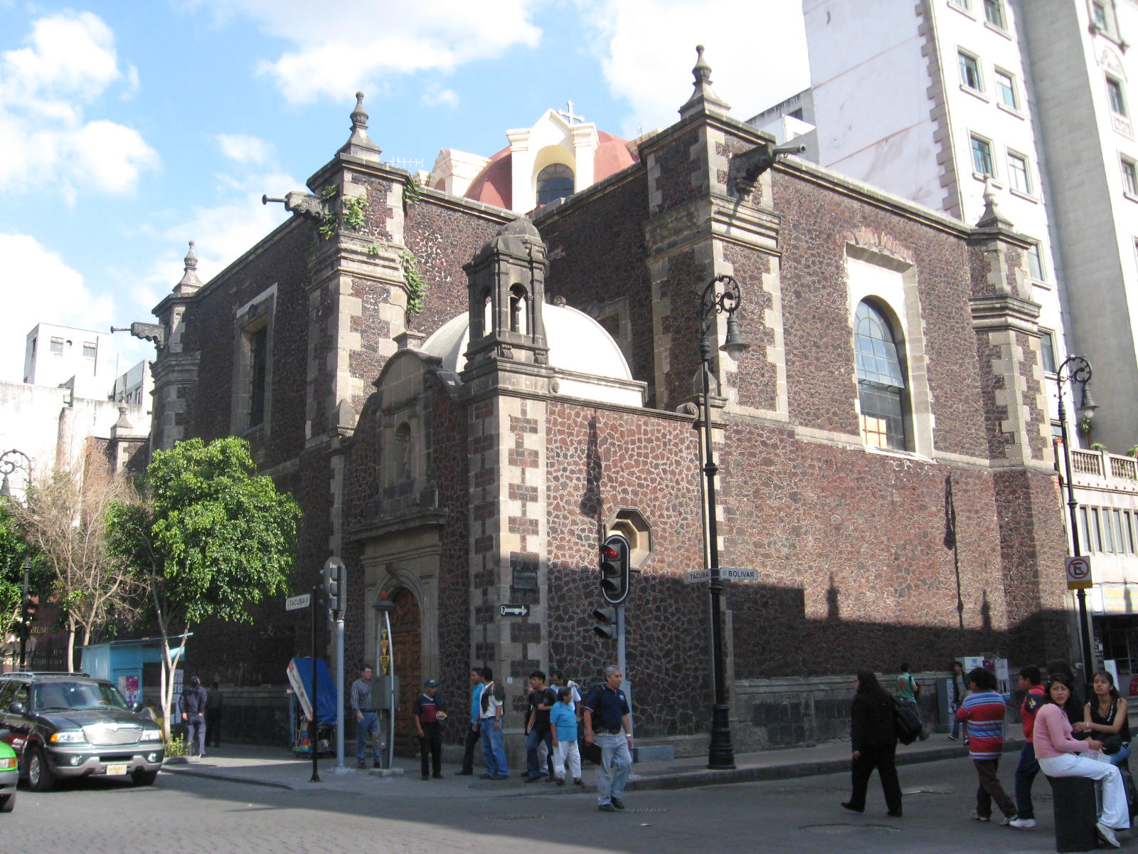 View of the Santa Clara Church/Library of Congress building on the corner of Tacuba and Mata Streets in the Centro of Mexico City